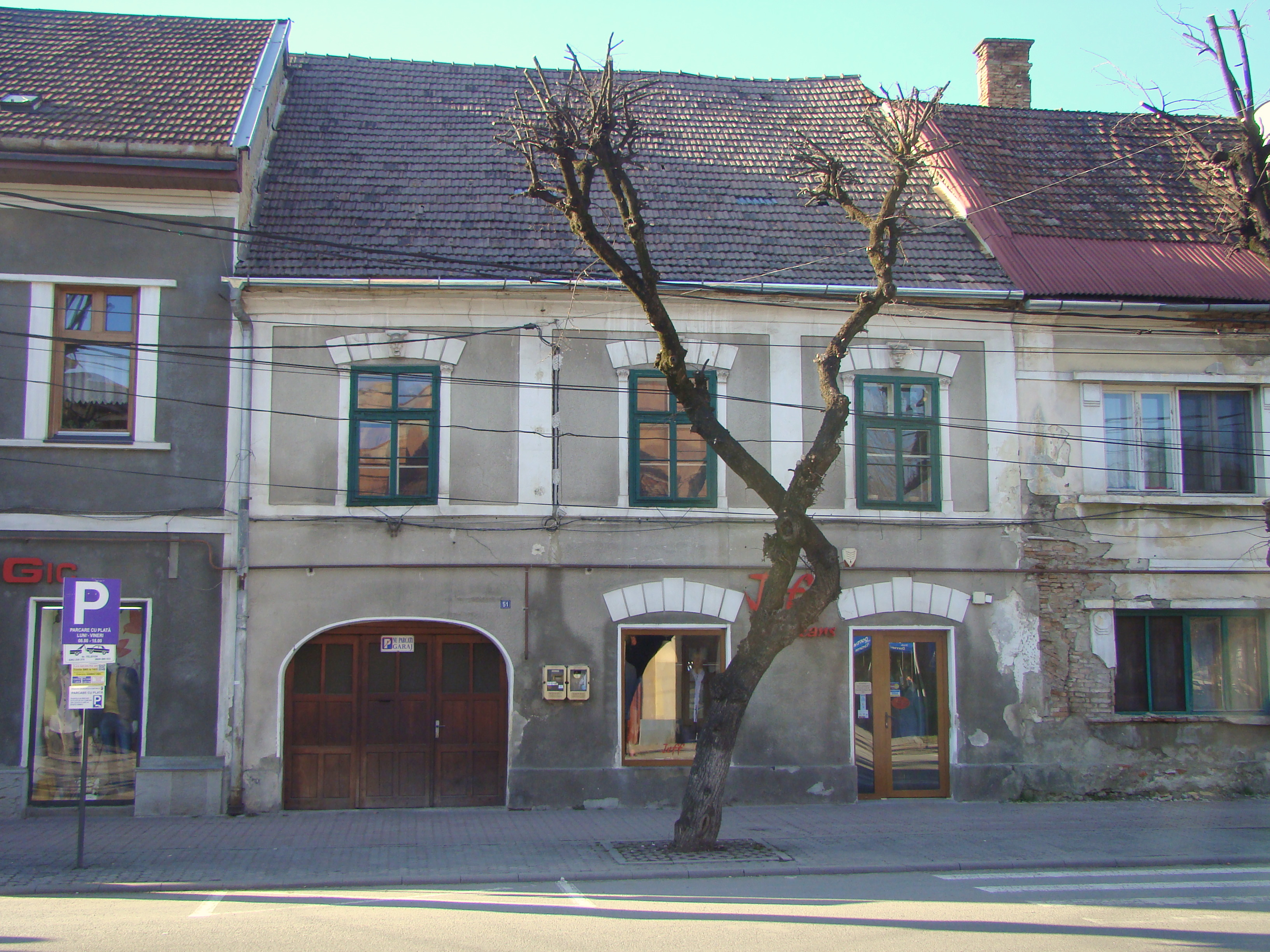 House, historic monument, in Bistriţa, Dornei street, number 51